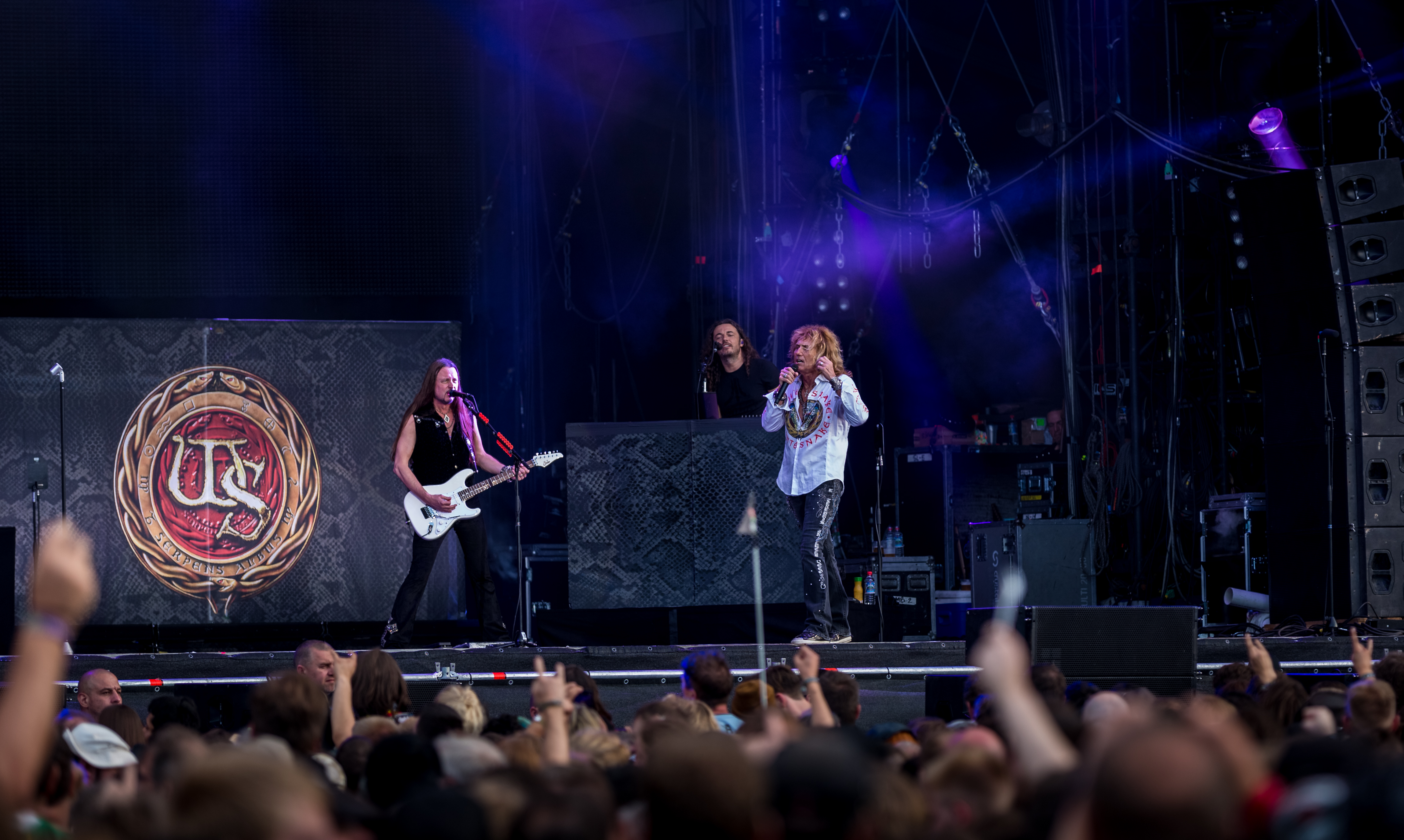 Whitesnake - Wacken Open Air 2016